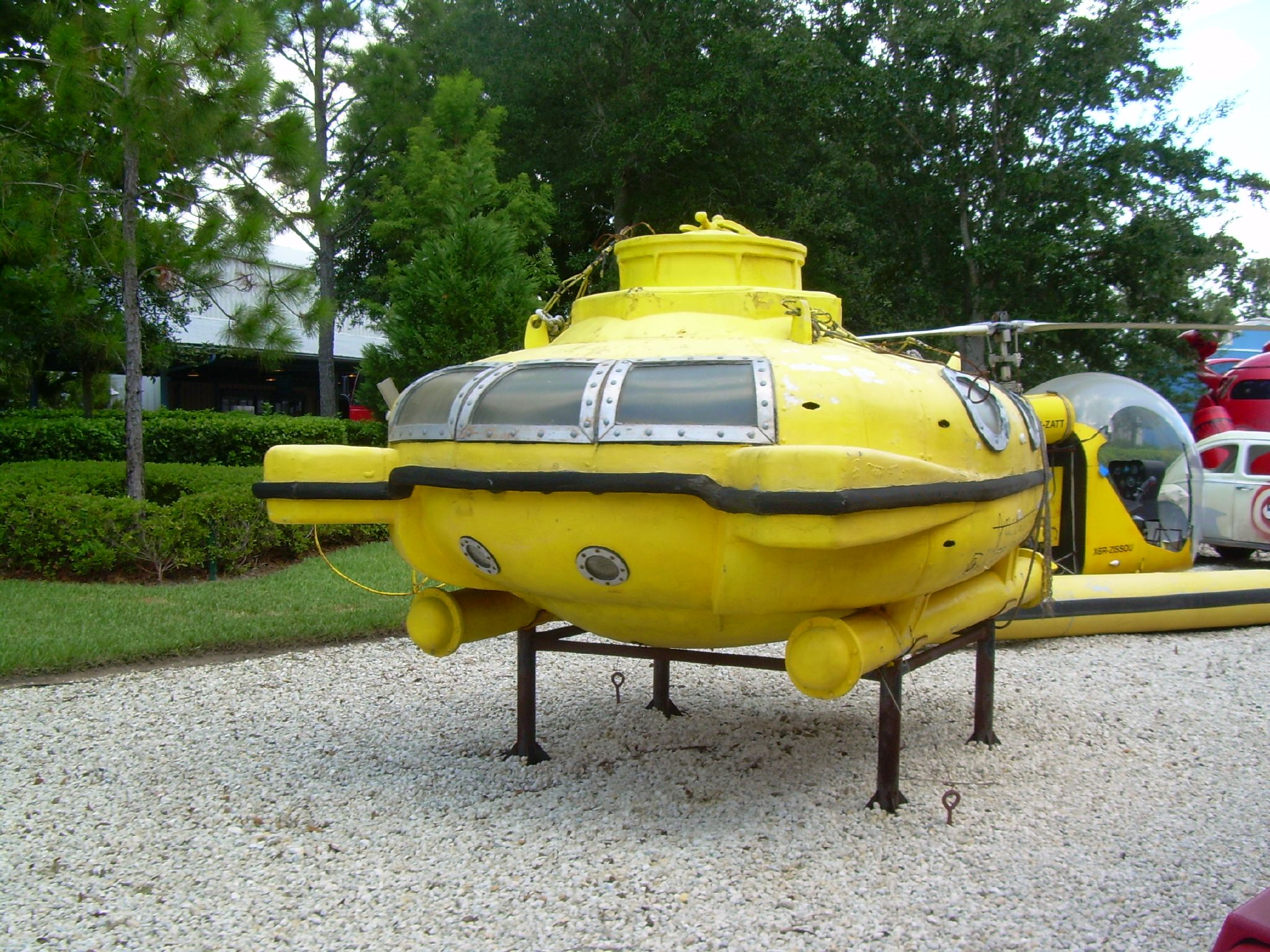 Team Zissou - submarine